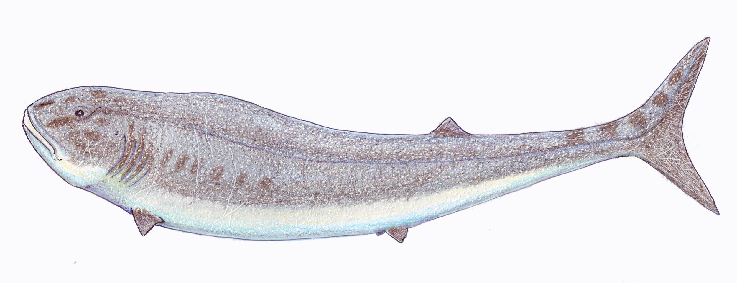 Orodus sp. - from Carboniferous of Indiana